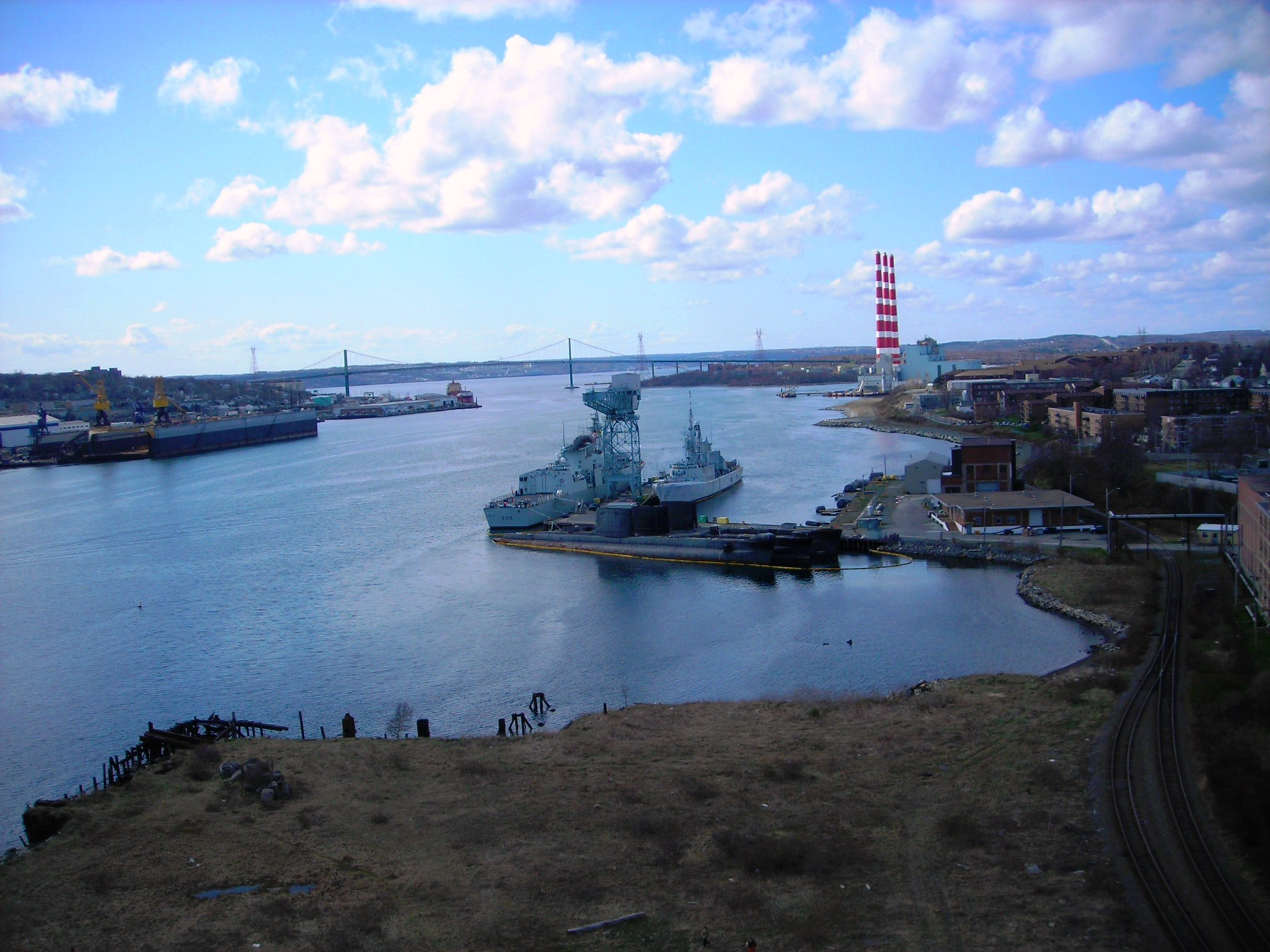 In the center: three Canadian Oberon class submarines laid up at a jetty on the Dartmouth side of the Halifax Harbour, opposite CFB Halifax. Most likely one of them is Ojibwa and the others would be Okanagan and the late training boat Olympus. In the background (left to right) parts of the Halifax Shipyards, the A. Murray MacKay Bridge, parts of the Bedford Basin and the Tufts Cove Generating Station are visible. The picture was taken from the bikepath on the Angus L. Macdonald Bridge. HMCS Ojibwa (S72) was saved from scrapping after decommission and later turned into a museum submarine. She is on display at the Elgin Military Museum of St. Thomas, Ontario.